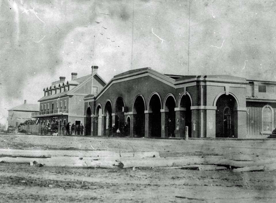 Collingwood station of the Ontario, Simcoe and Huron Railway, before the tracks were laid. It shows the original Collingwood passenger station, which burned in 1873.